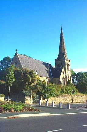 Woodlesford, All Saints Church. This Church is just to the south of centre of the O/S grid it occupies.